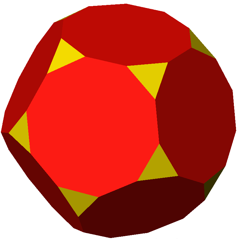 Transition Dodecahedron to Icosahedron 2of5